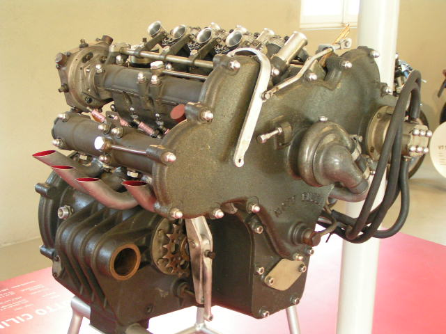 This work is free and may be used by anyone for any purpose. If you wish to use this content, you do not need to request permission as long as you follow any licensing requirements mentioned on this page.